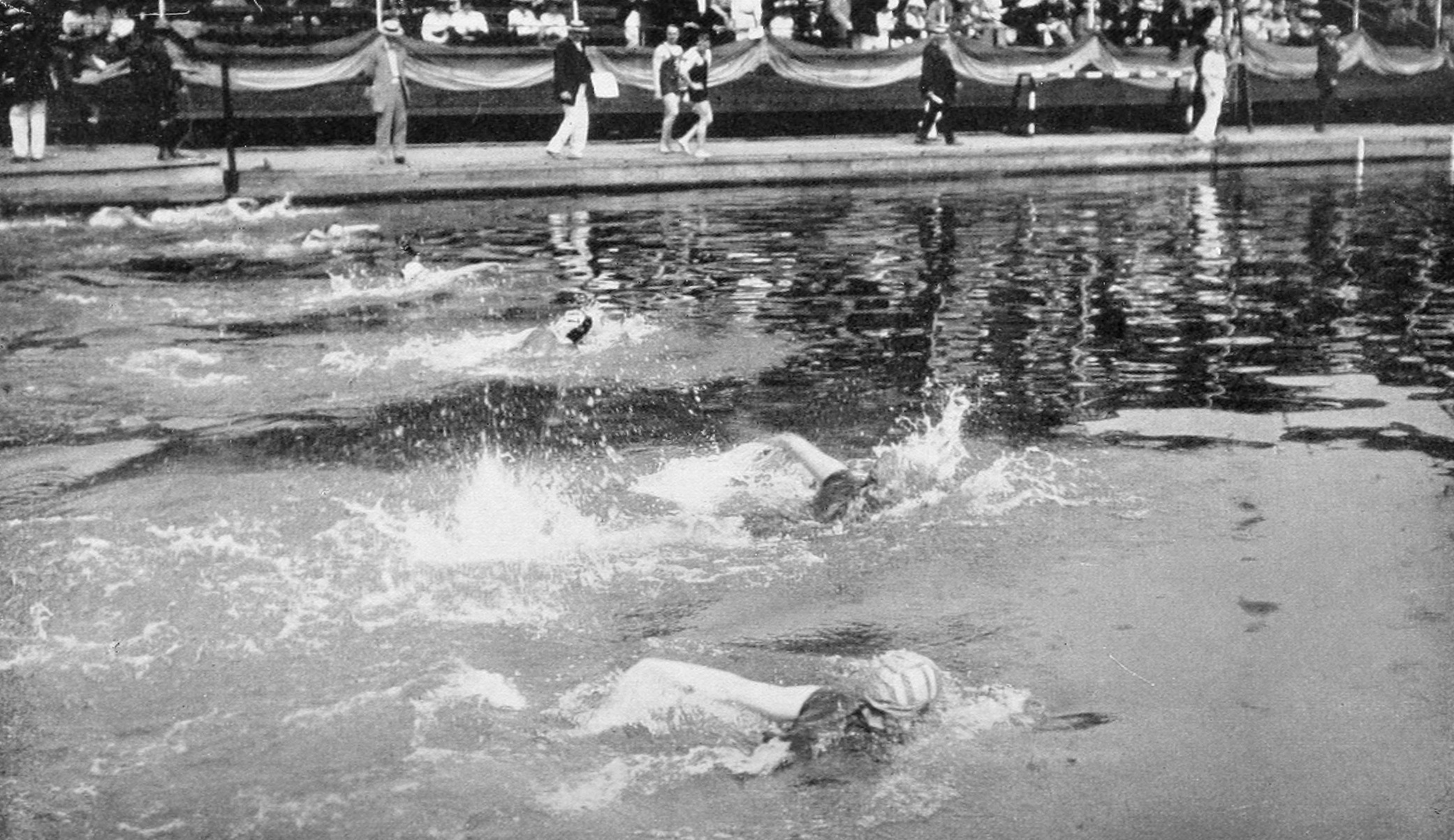 The final of the women's 100 metre freestyle swimming competion at the 1912 Summer Olympics